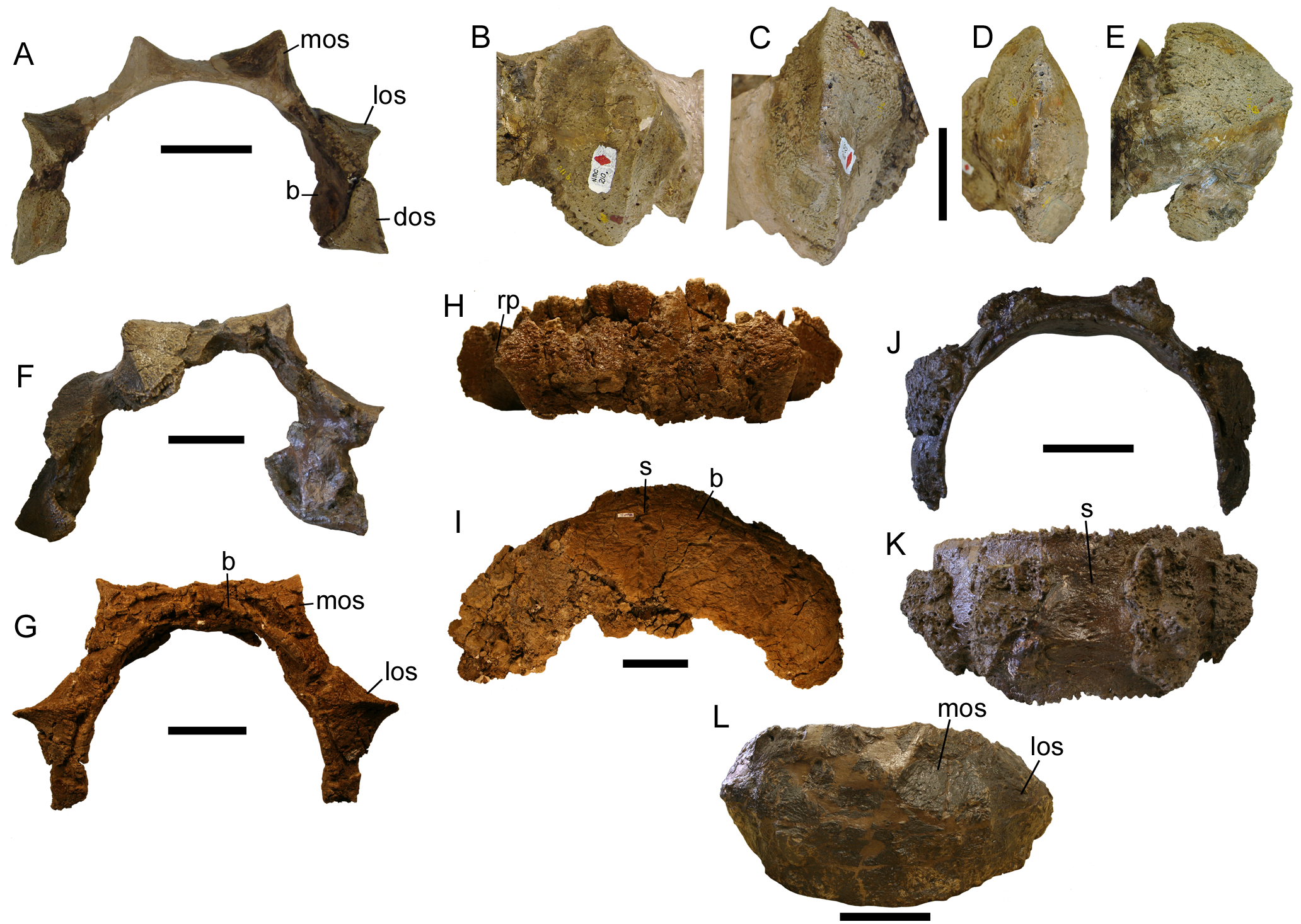 CMN 0210 (Euoplocephalus tutus holotype) first cervical half ring in A) anterior view; B) left medial osteoderm in superficial view; C) right lateral osteoderm in superficial view; D) right distal osteoderm in superficial view and E) dorsal view. F) First cervical half rings of AMNH 5406 in anterior view. UALVP 31, first cervical half ring in G) anterior and H) dorsal views, and second cervical half ring in I) dorsal view. AMNH 5337 first cervical half ring in J) anterior and K) dorsal views. L) AMNH 5404 first cervical half ring in dorsal view.